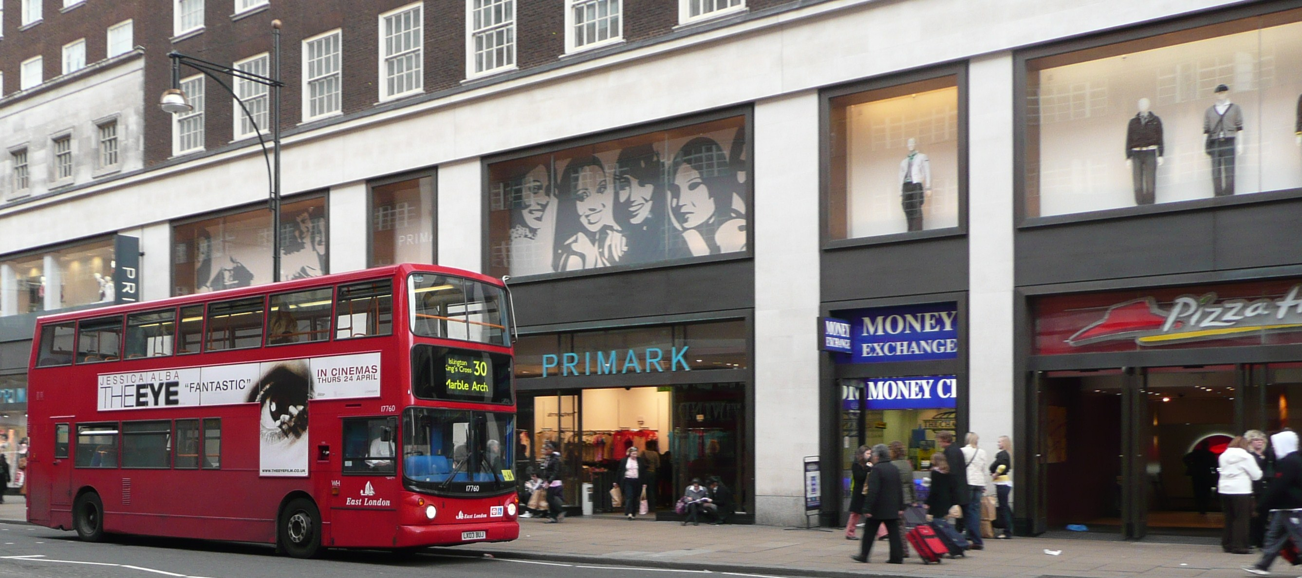 An East London bus on route 30 in Oxford Street, London